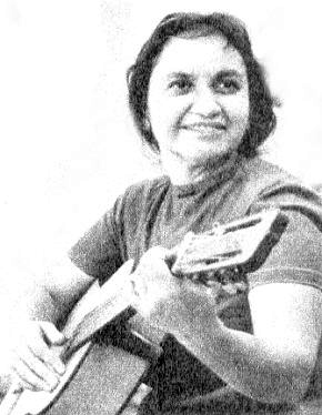 Violeta Parra (1917 - 1967) This image (or all images in this category/page) is very small, unfixably too light/dark, or may not adequately illustrate the subject of the picture. If a higher-quality image is available please consider replacing this one; otherwise, a replacement under a free license should be found or provided. Please see Category:Image cleanup templates for templates used to mark images that only need a clean-up. For more help, see Commons:Media for cleanup#Low quality pictures.